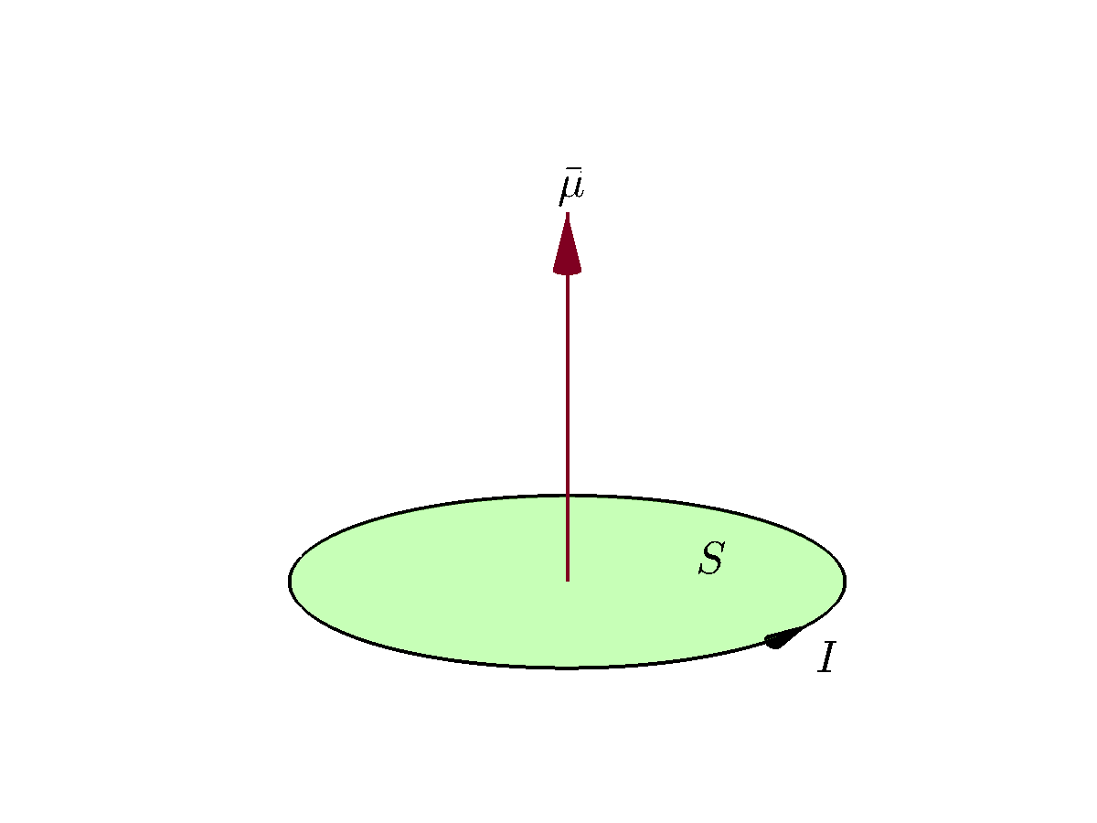 Illustrates the definition of a magnetic moment as current times area of a loop.